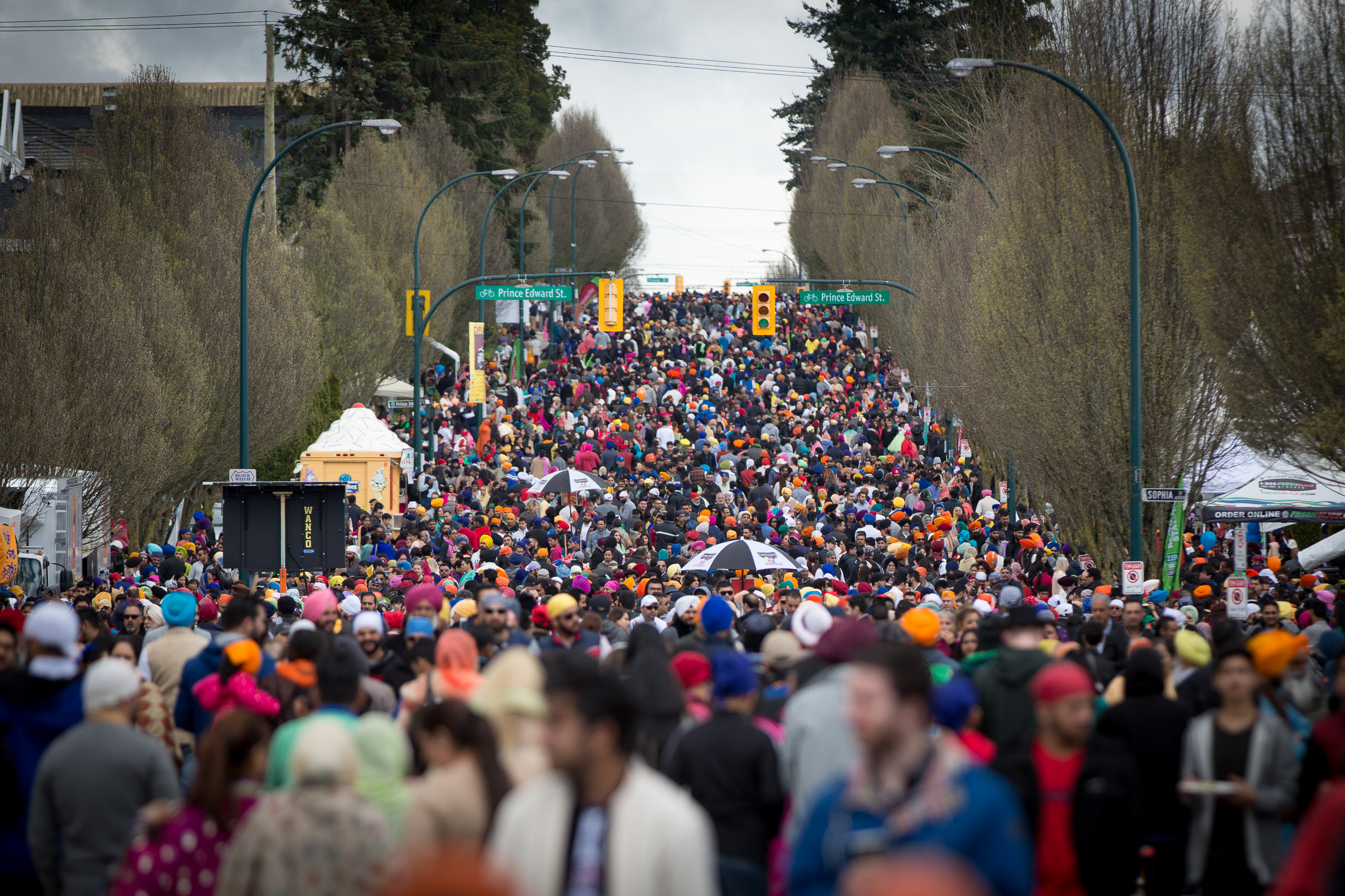 April 15, 2017. Vancouver, BC John Horgan celebrates Vaisakhi in Vancouver.